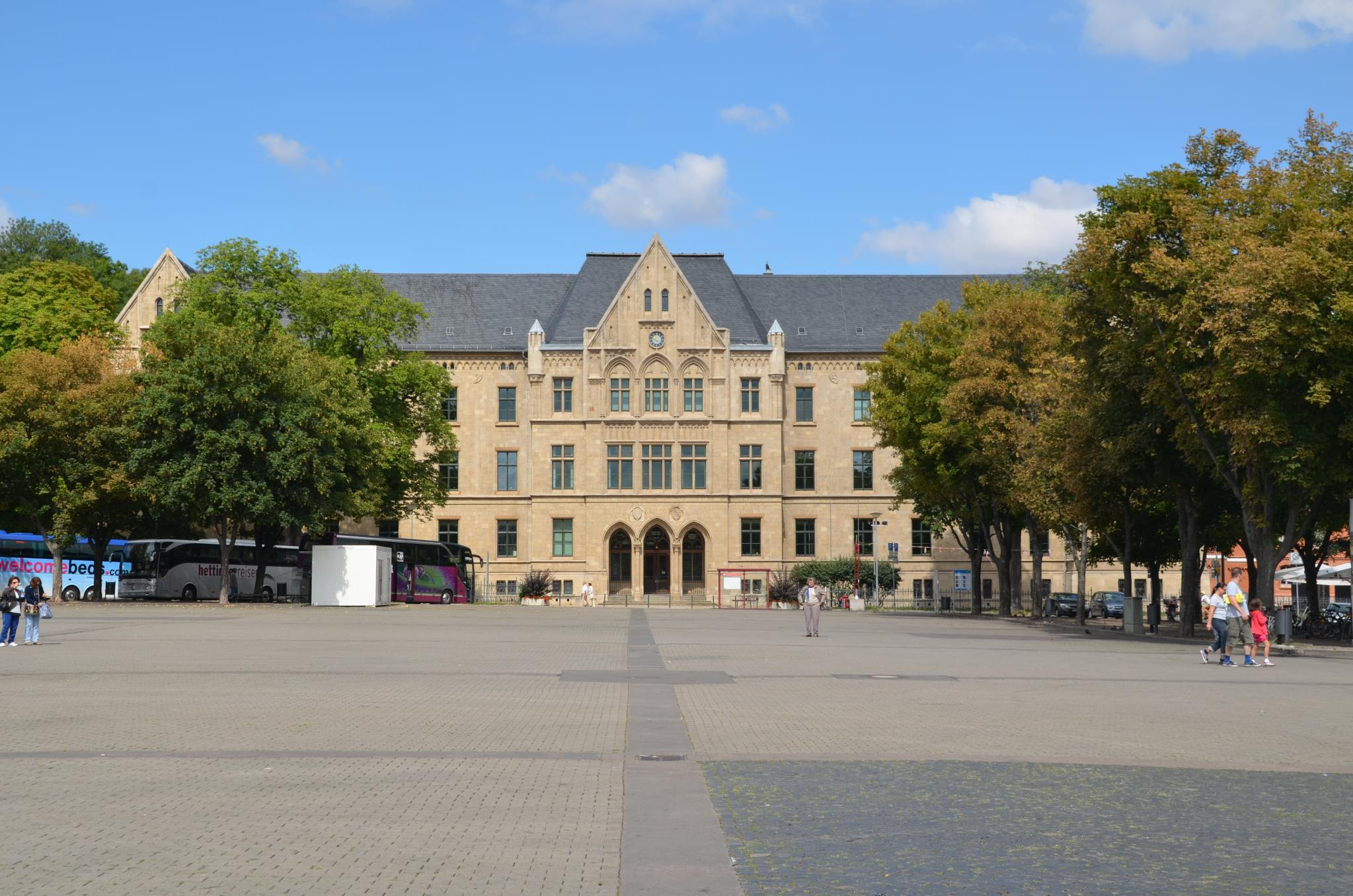 Regional court Erfurt, Thuringia, Germany